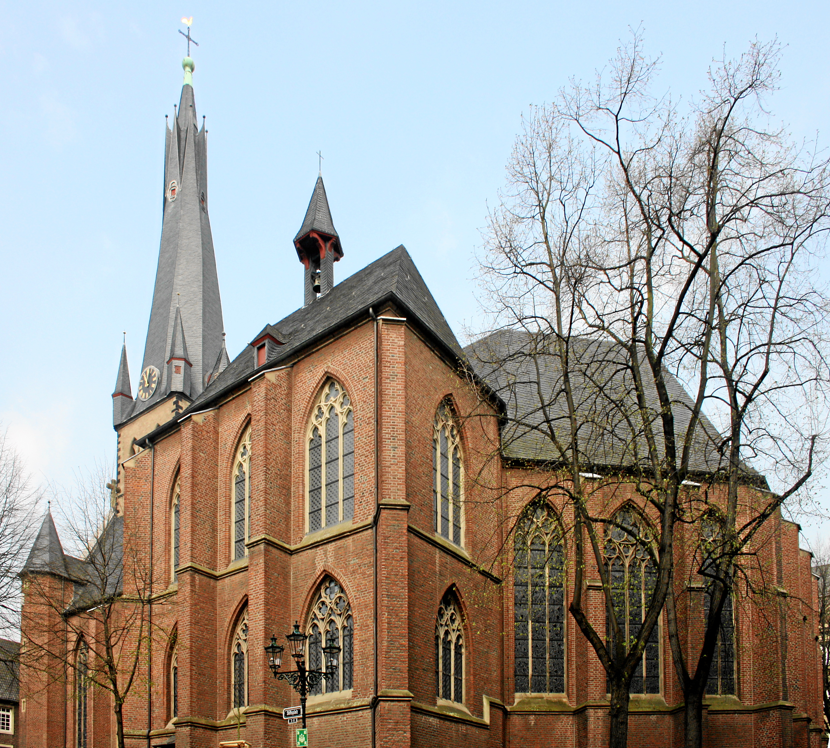 Düsseldorf, Germany. Catholic church St. Lambertus, exterior from South-East.